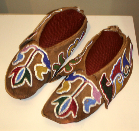 Otoe-Missouria beaded moccasins, ca. 1880, Oklahoma, collection of the Oklahoma History Center, OKC